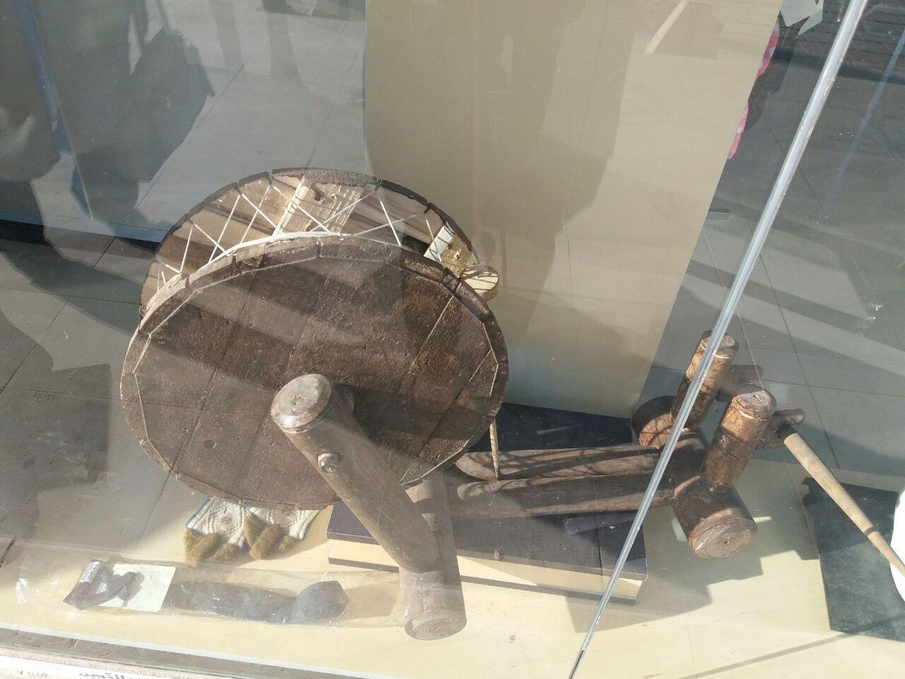 Spinning wheel in Jolfa, Iran